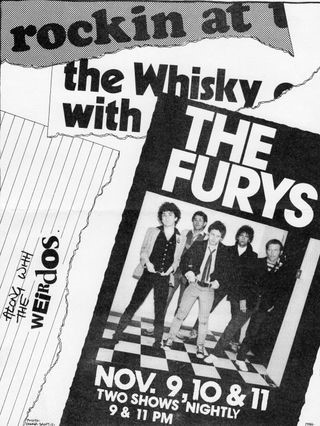 The Furys Flyer from the late 70's